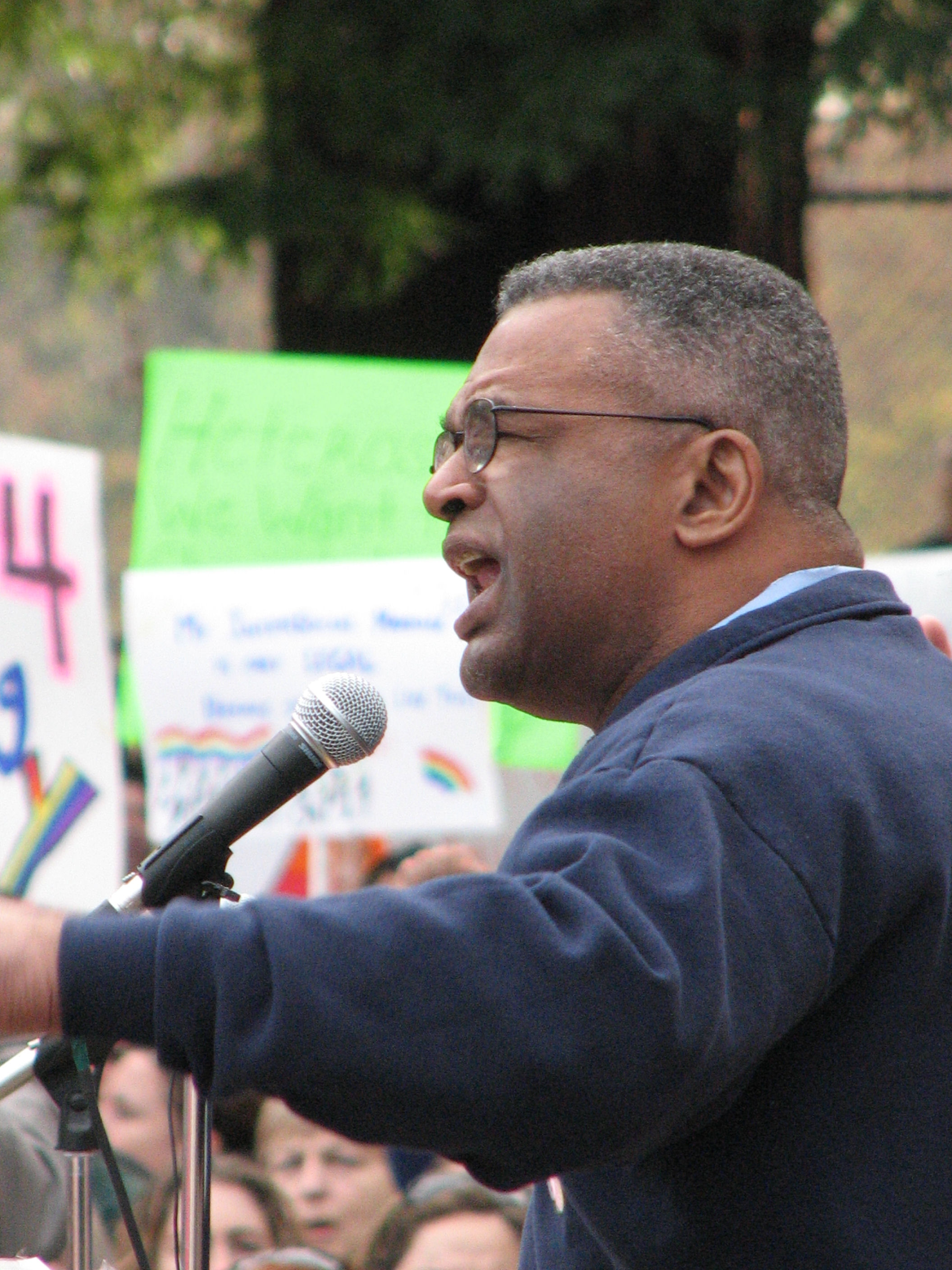 Ron Sims, King County executive, Seattle, Washington 11/15/08 Prop 8 protest